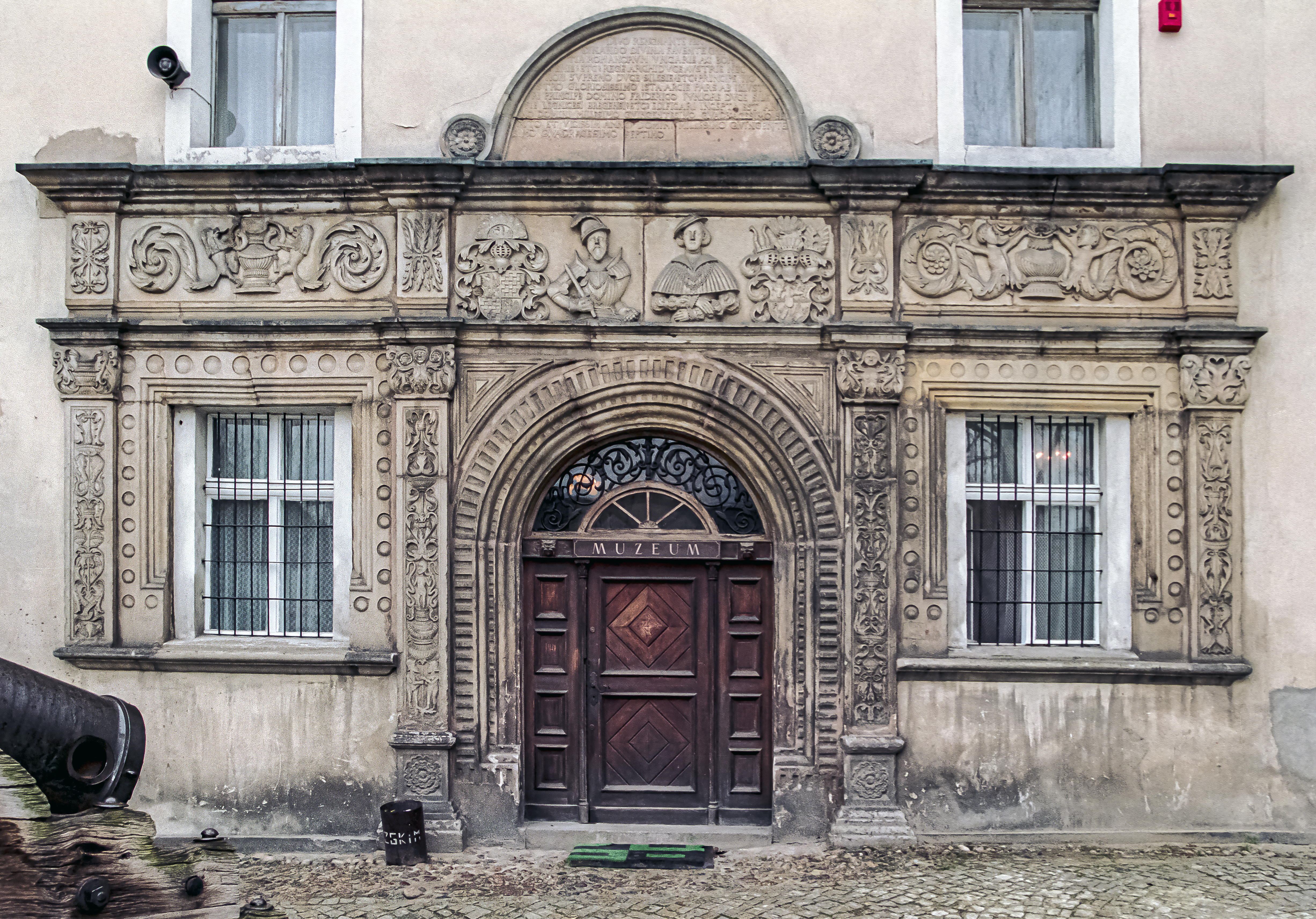 Poland, Chojnow Castle